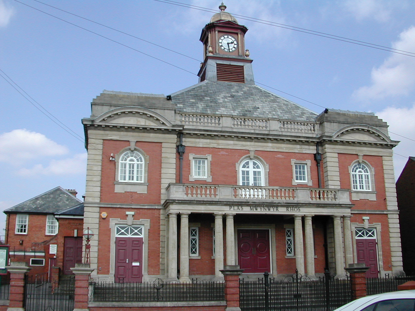 Stiwt Theatre, Broad Street, Rhosllanerchrugog Author: Jason Davies. Taken using Nikon Coolpix 775 Digital Camera --Jaseman 16:17, 9 July 2006 (UTC)